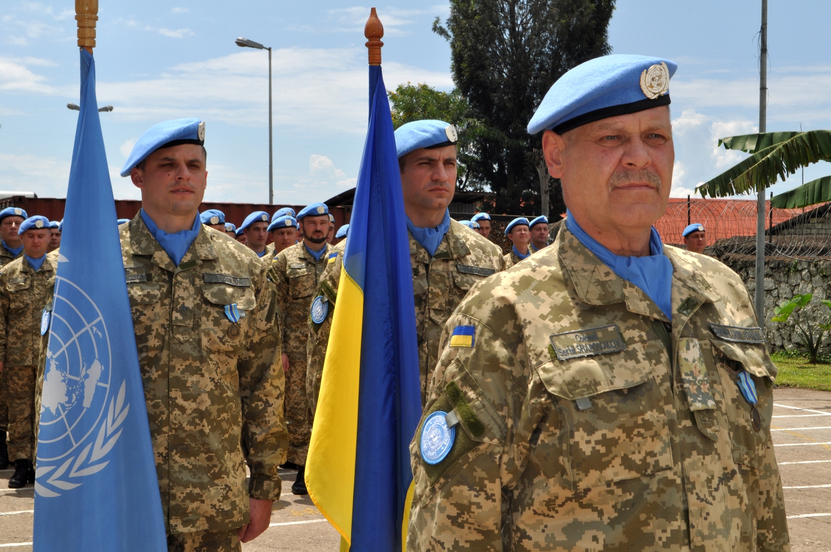 Ukrainian aviation unit. DR Congo. MONUSCO. Medal parade. By Nazar Voloshyn. 06/12/2015